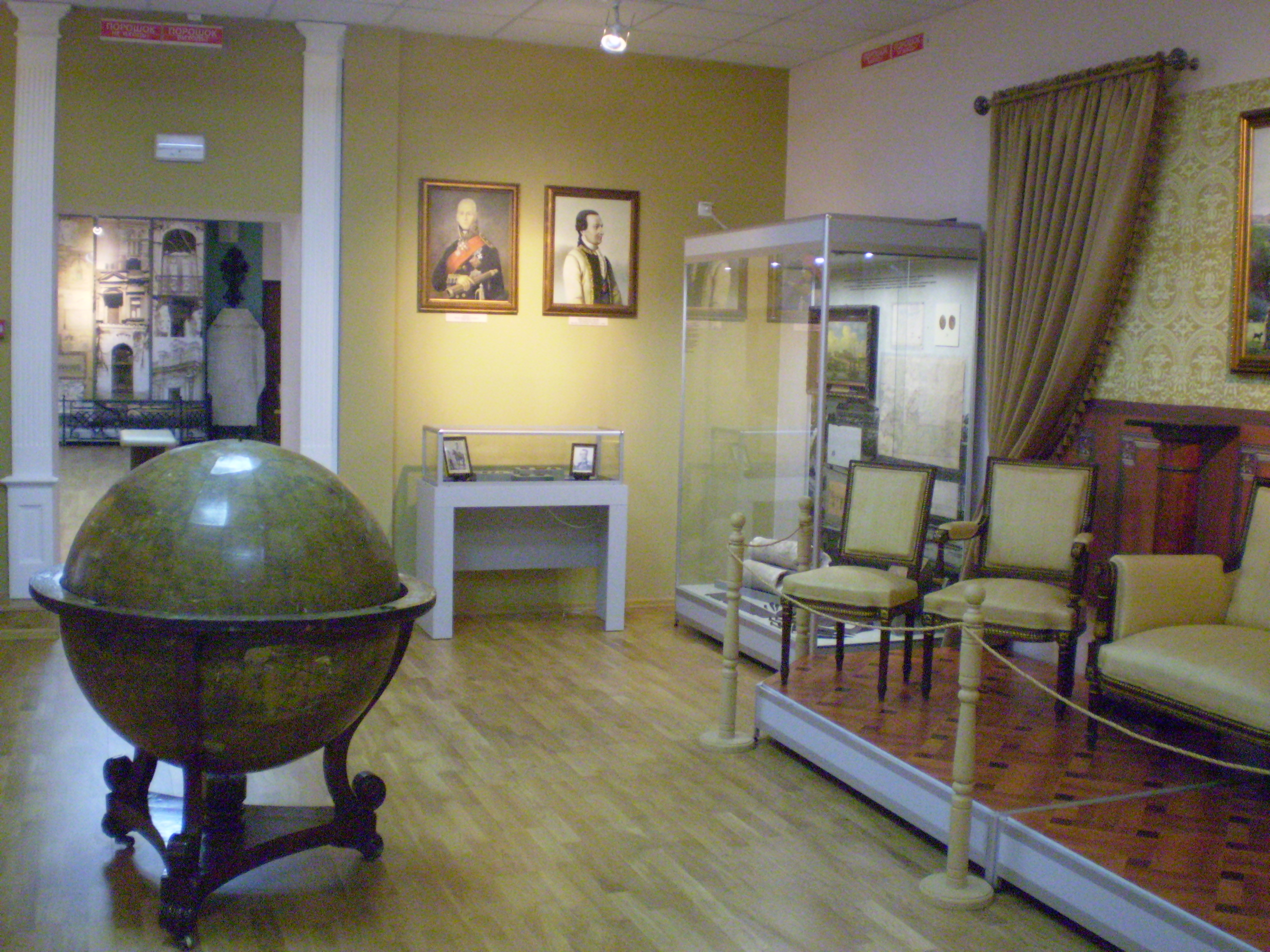 зала "Становлення суднобудування на Північному Причорномор'ї та заснування Миколаєва" Миколаївська весна у Вікіпедії